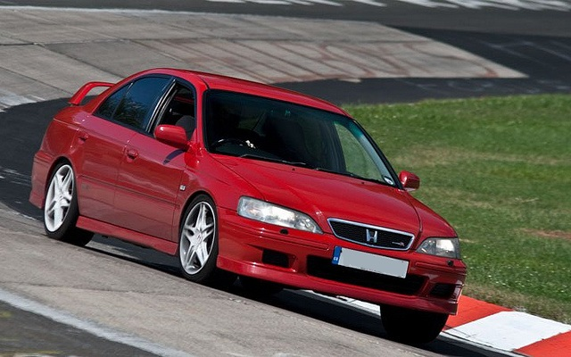 Honda Accord Type R - Nurburgring Nordschliefe